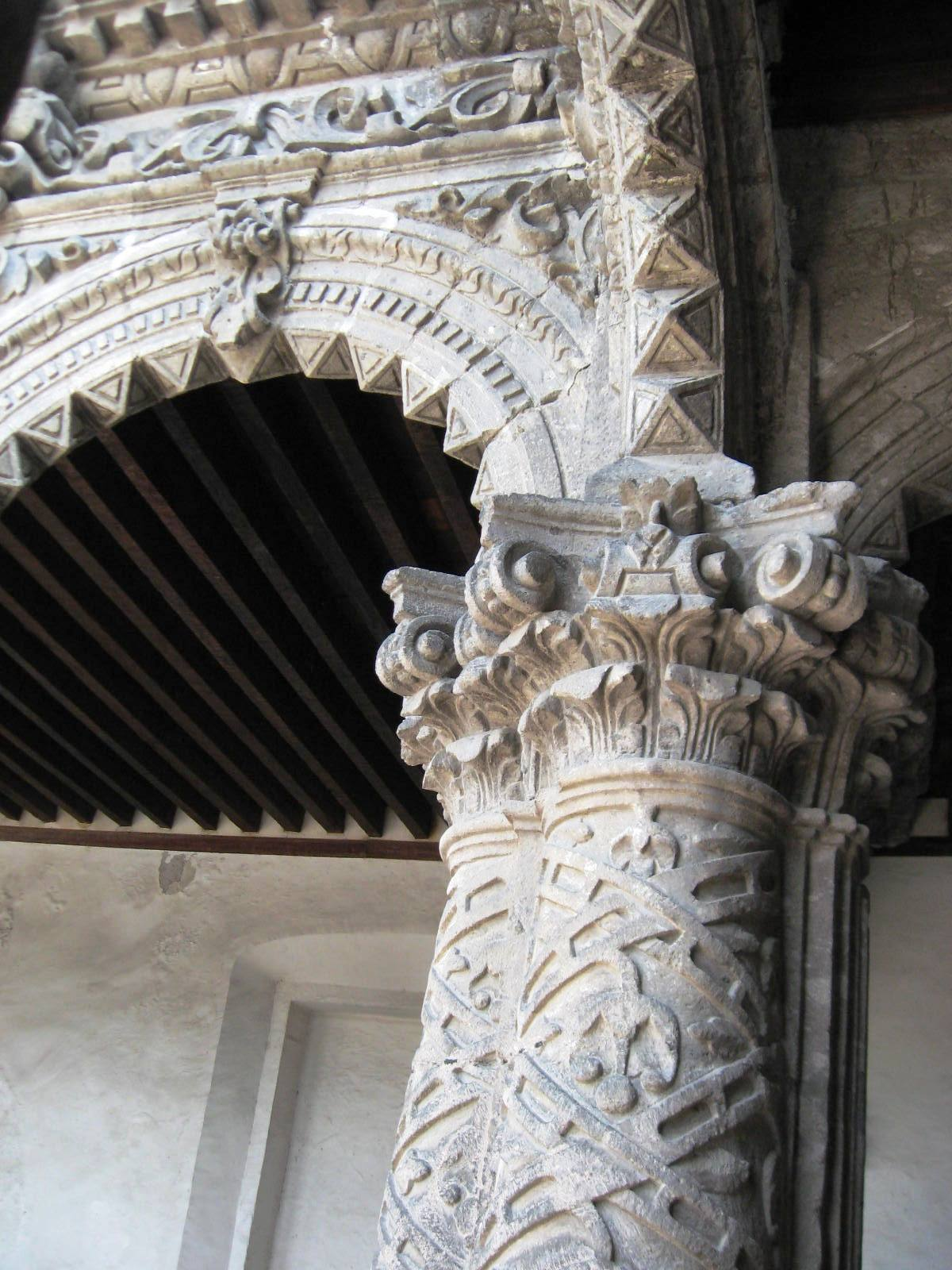 Close up of a corner column on the upper floor of the La Merced Cloister in Mexico City